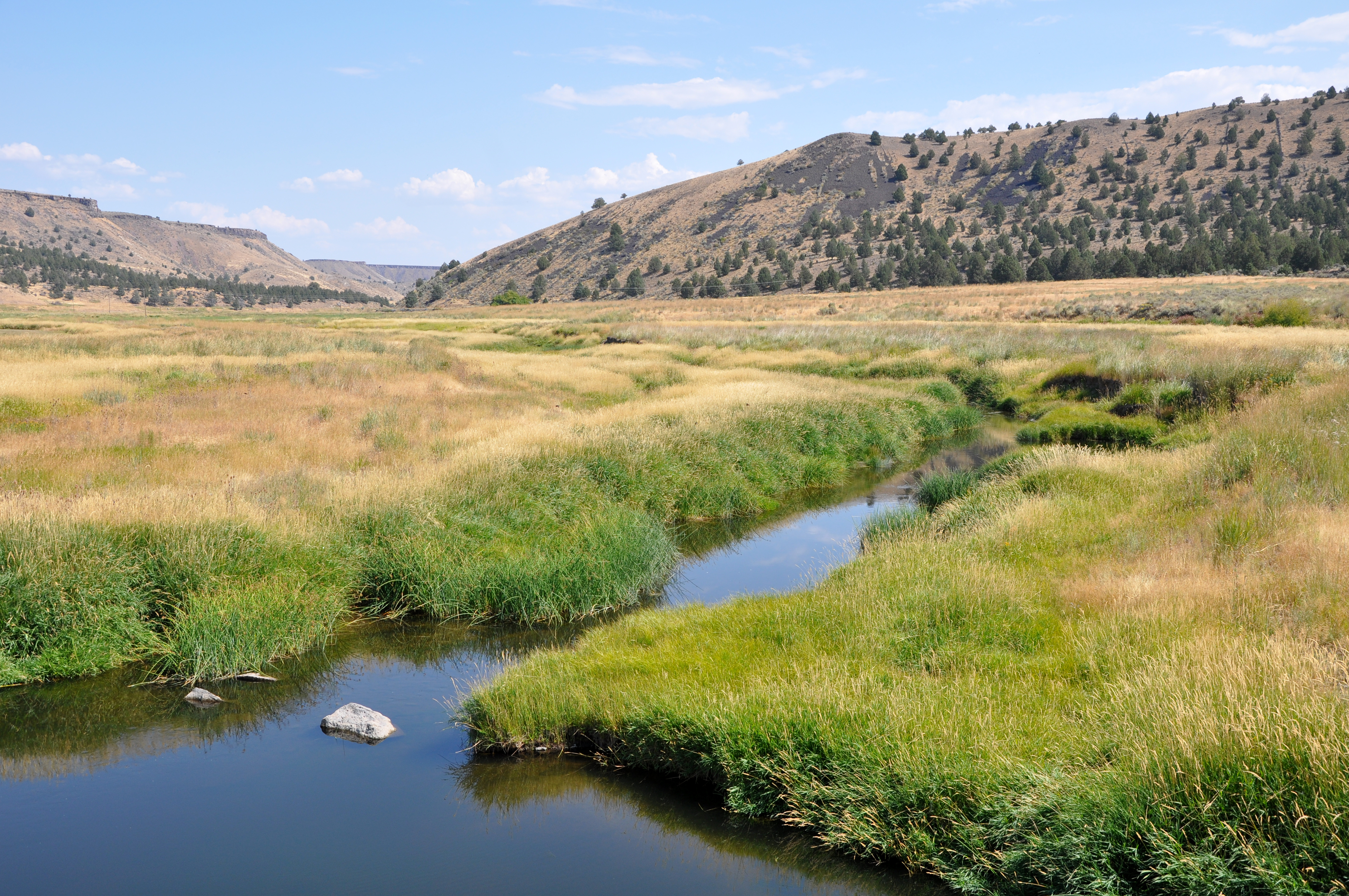 South Fork Crooked River in the U.S. state of Oregon. View is upstream from an Oregon Route 380 bridge west of Paulina.